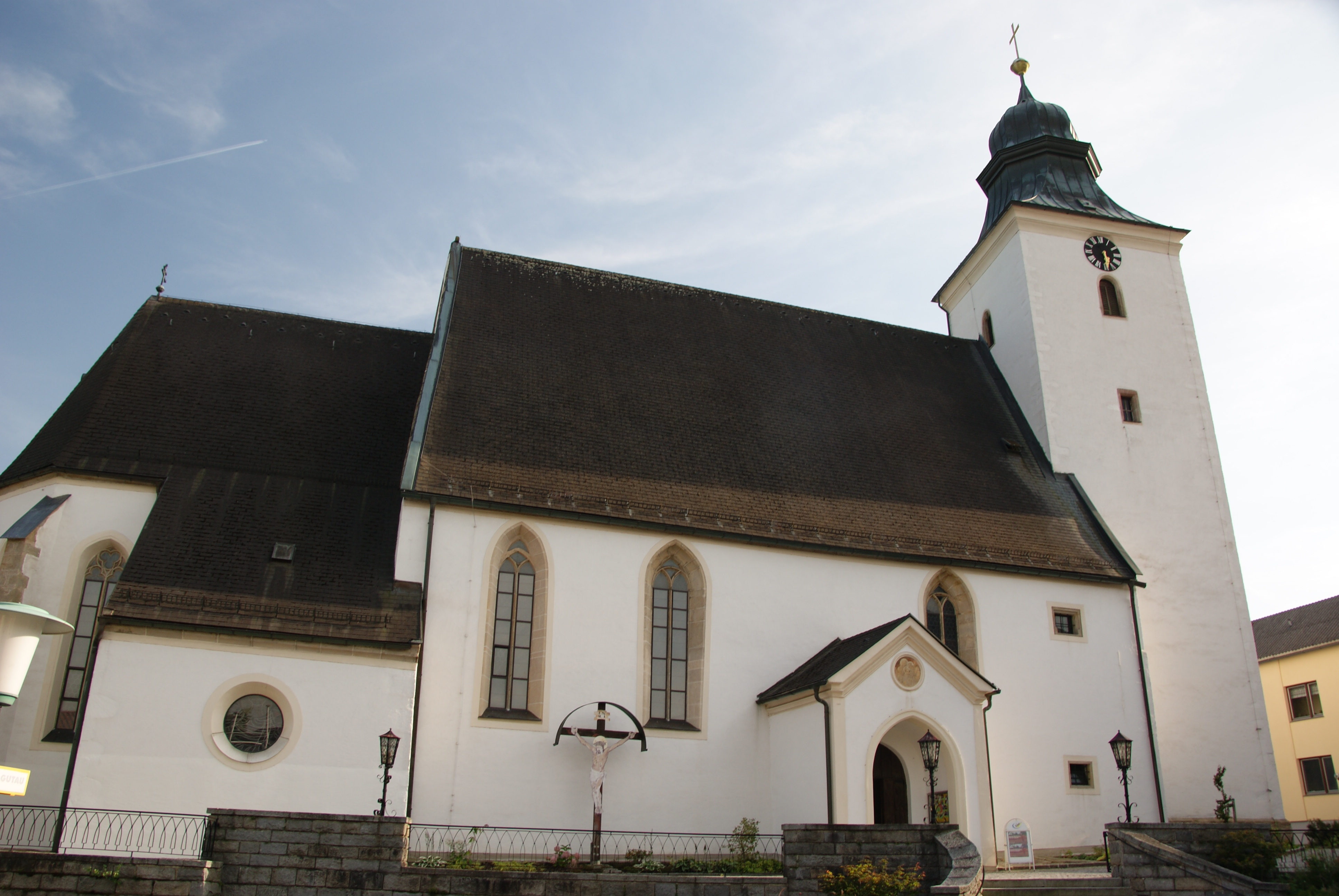 Saint-Giles-Church in Gutau, Upper Austria